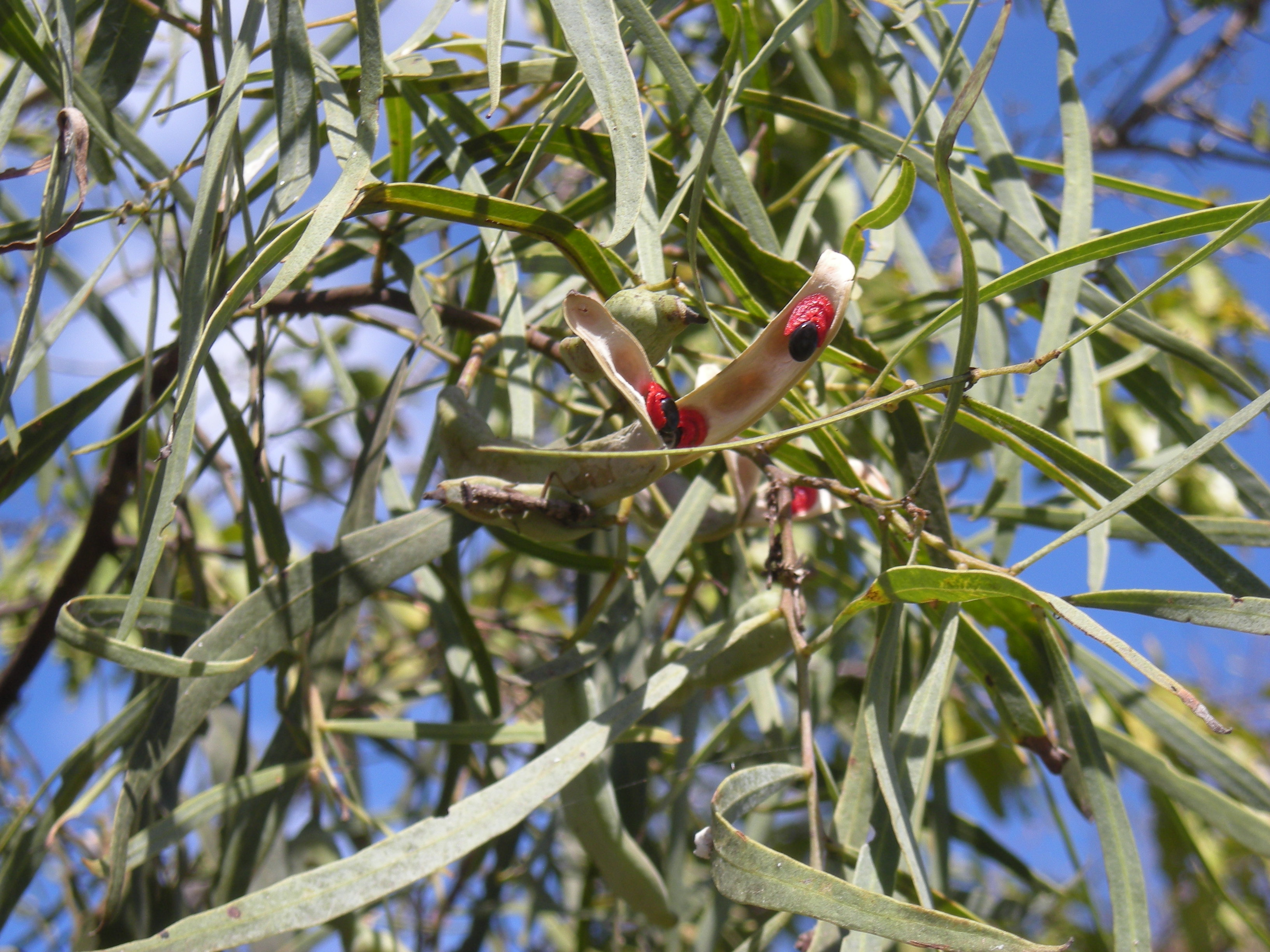 Acacia salicina pod and foliage displaying seeds and arils.